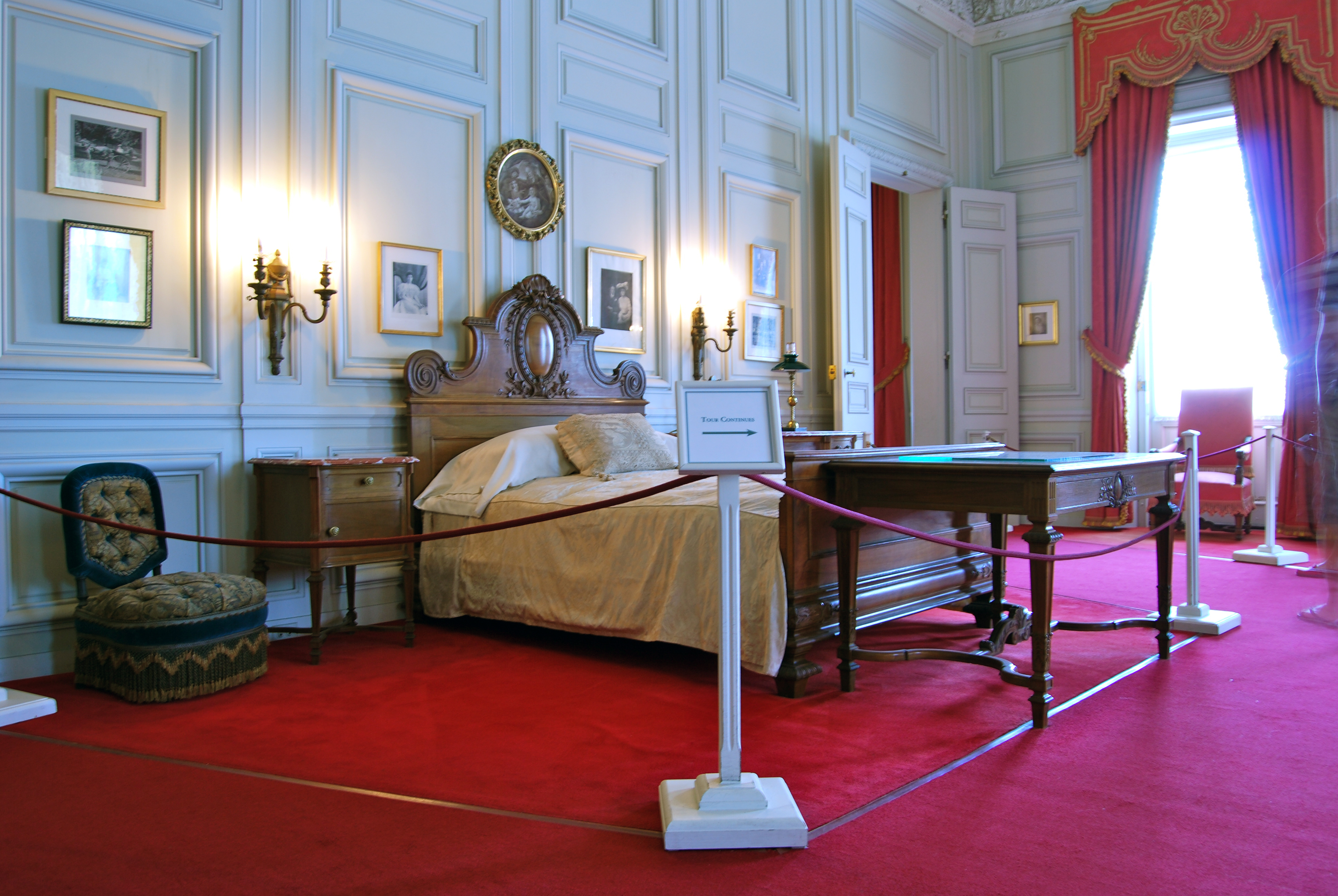 Bedroom of Cornelius Vanderbilt II at The Breakers in Newport, Rhode Island, United States